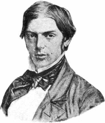 Contemporary portrait of Irish rebel Thomas Devin Reilly circa 1847